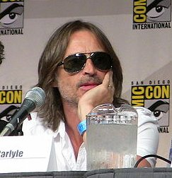 Comic-Con 2009 - Stargate Universe Panel - San Diego, Calif. - July 24, 2009